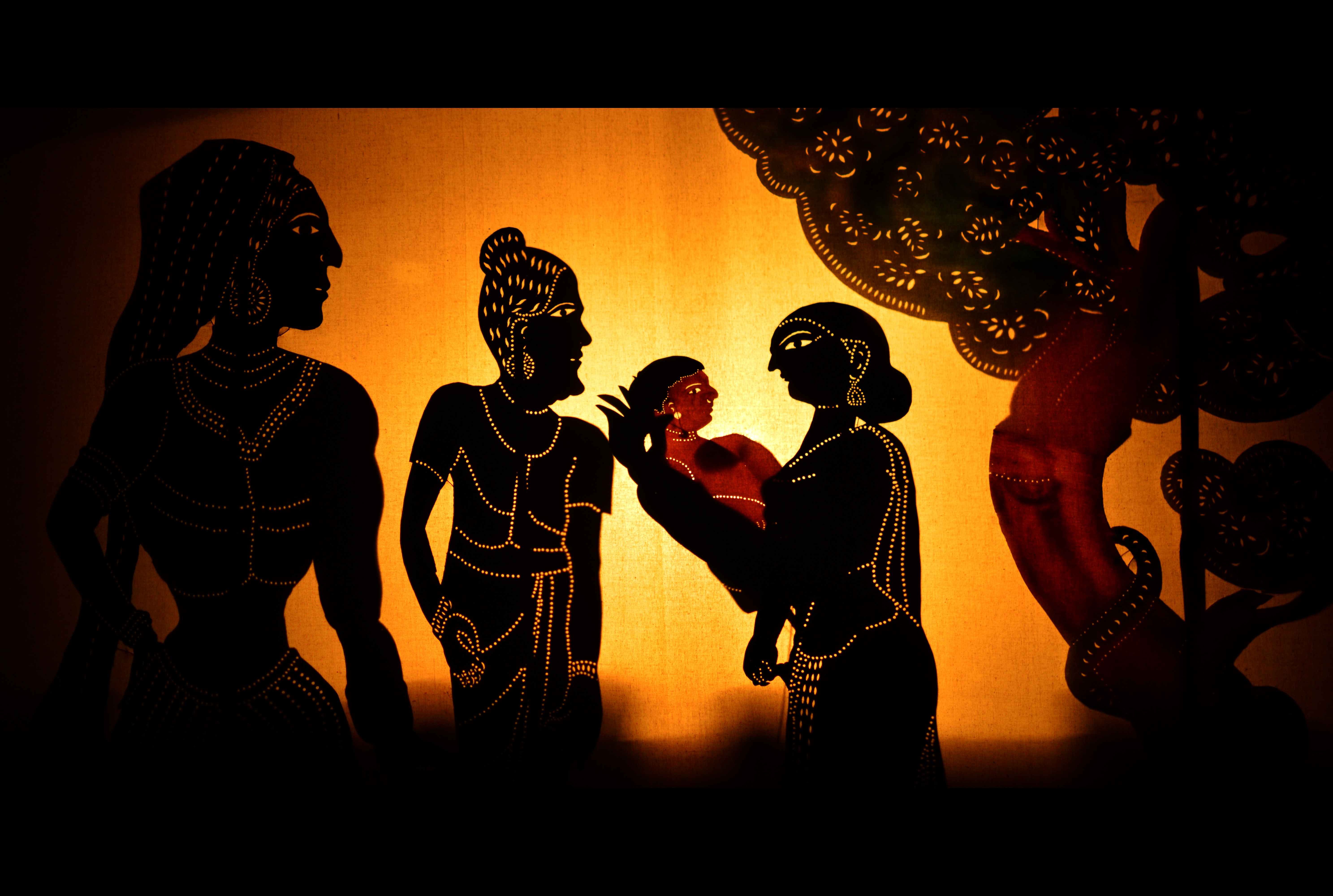 Tholpavakoothuis a form of shadow puppetry that is practiced in Kerala, India. It is performed using leather puppets as a ritual dedicated to Bhadrakali and is performed in Devi temples in specially built theatres called koothumadams.[1] This art form is especially popular in the Palakkad, Thrissur and Malappuram districts of Kerala.